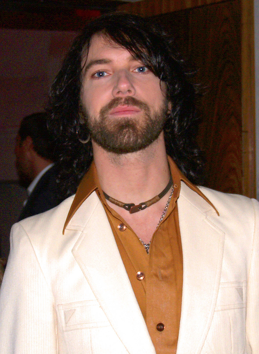 Pain of Salavtion in Melodifestivalen 2010.